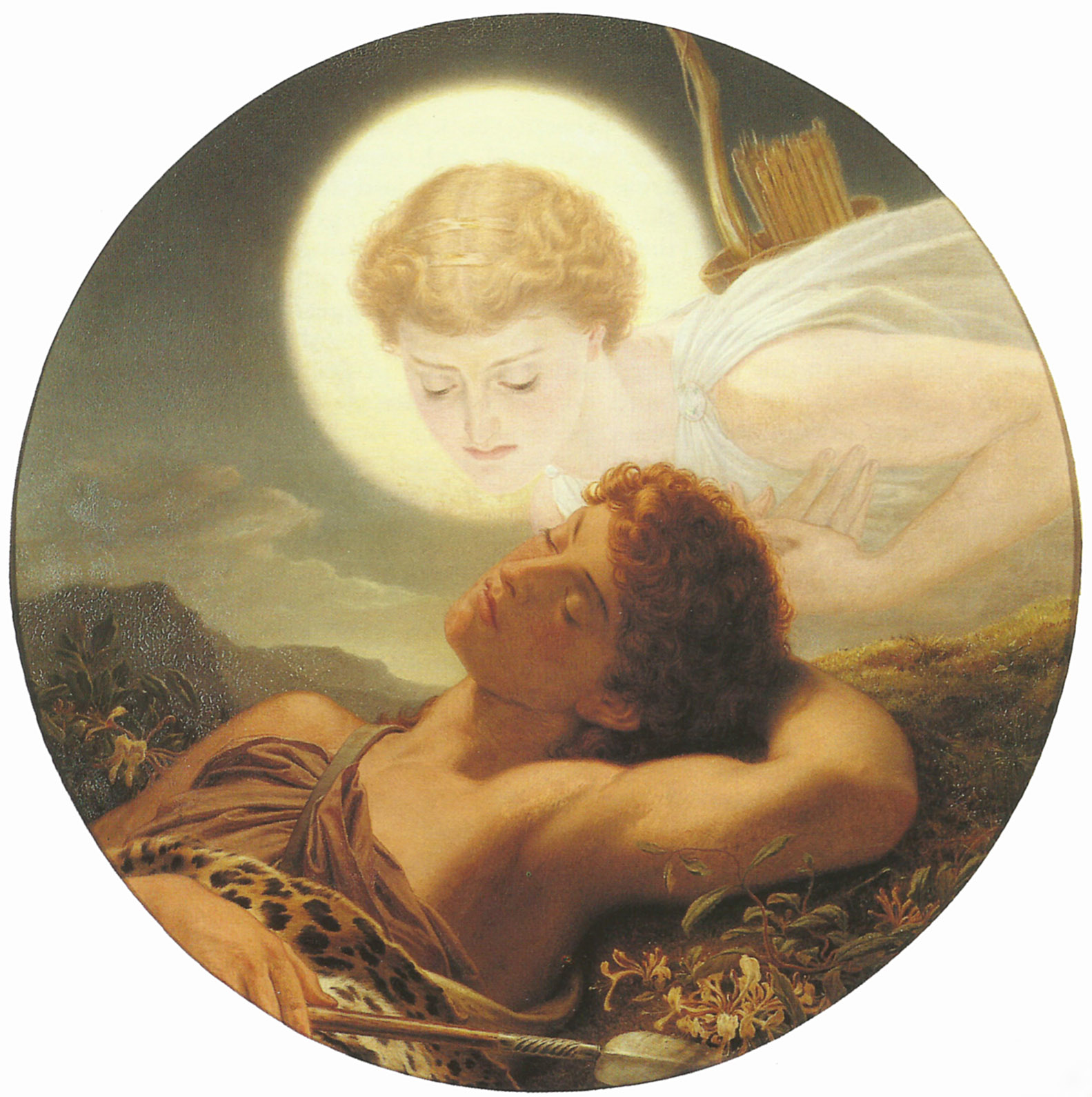 Sir Joseph Noel Paton (1821-1901) - "A Dream of Latmos" According to his journals, Paton worked on the present picture from December 1878 until 13 January 1879 when he broke off due to illness. The work was completed in time for exhibition at the Scottish Royal Academy in 1880. Paton's son, Frederick, was the model for Endymion.